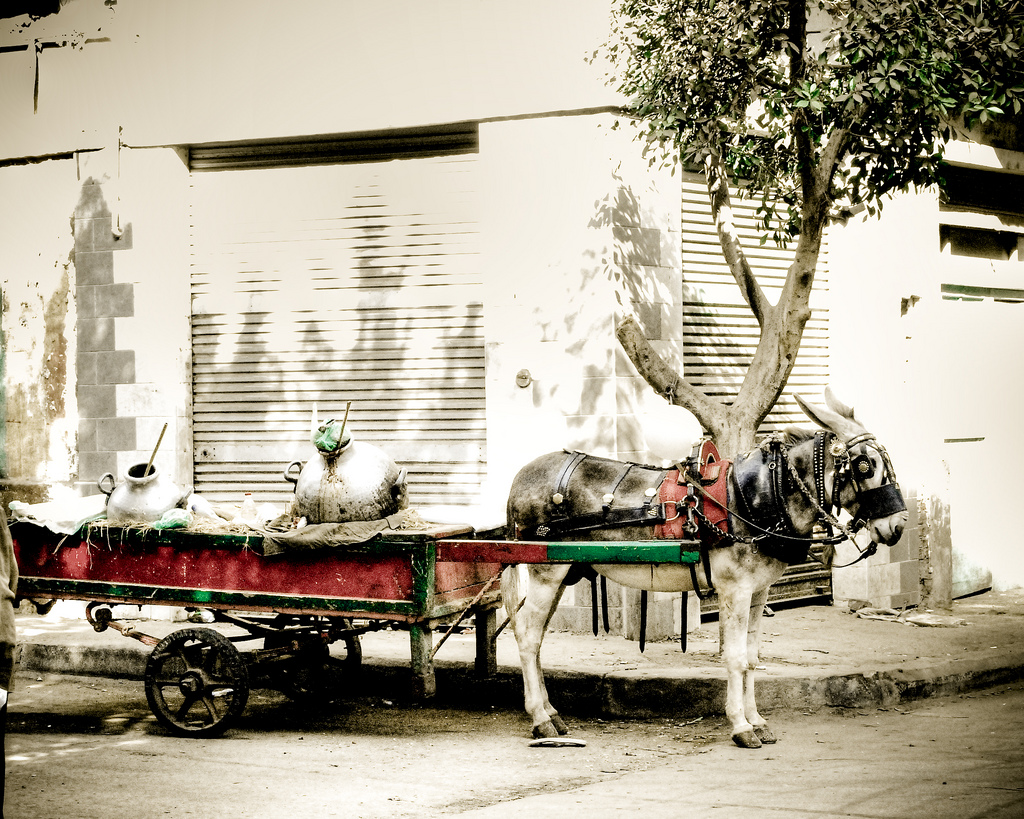 The bean seller is so kind with the donkey. When he pass there in the morning, he let the donkey make his sound instead of the seller. He always cares about his donkey as u see here, he added a balloon to looks better in Al-Adha feast :)). It's seemed to be more than friends :)) Location El-Tag Street, Shubra, Cairo, Egypt Photomatix: Mixing 3 copies of different exposure (-2..0..+2) Lightroom: Using Aged mood with some other editings.... Actually I don't remember these well =D